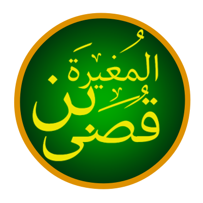 AL mugirah bin Qusai